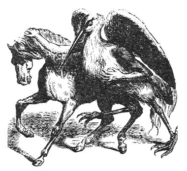 Shax, Dictionaire Infernnale. Note: The Forty-fourth Evil Spirit is Shax, or Shaz, or Shass. He is a Great Marquis, and appeareth in the Form of a Stock-Dove, speaking with a voice hoarse, but yet subtle. His Office is to take away the Sight, Hearing, or Understanding of any Man or Woman at the command of the Exorcist; and to steal money out of the houses of Kings.